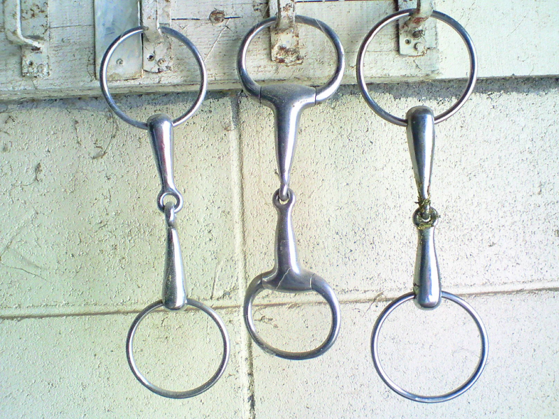 Bit used for horse riding.